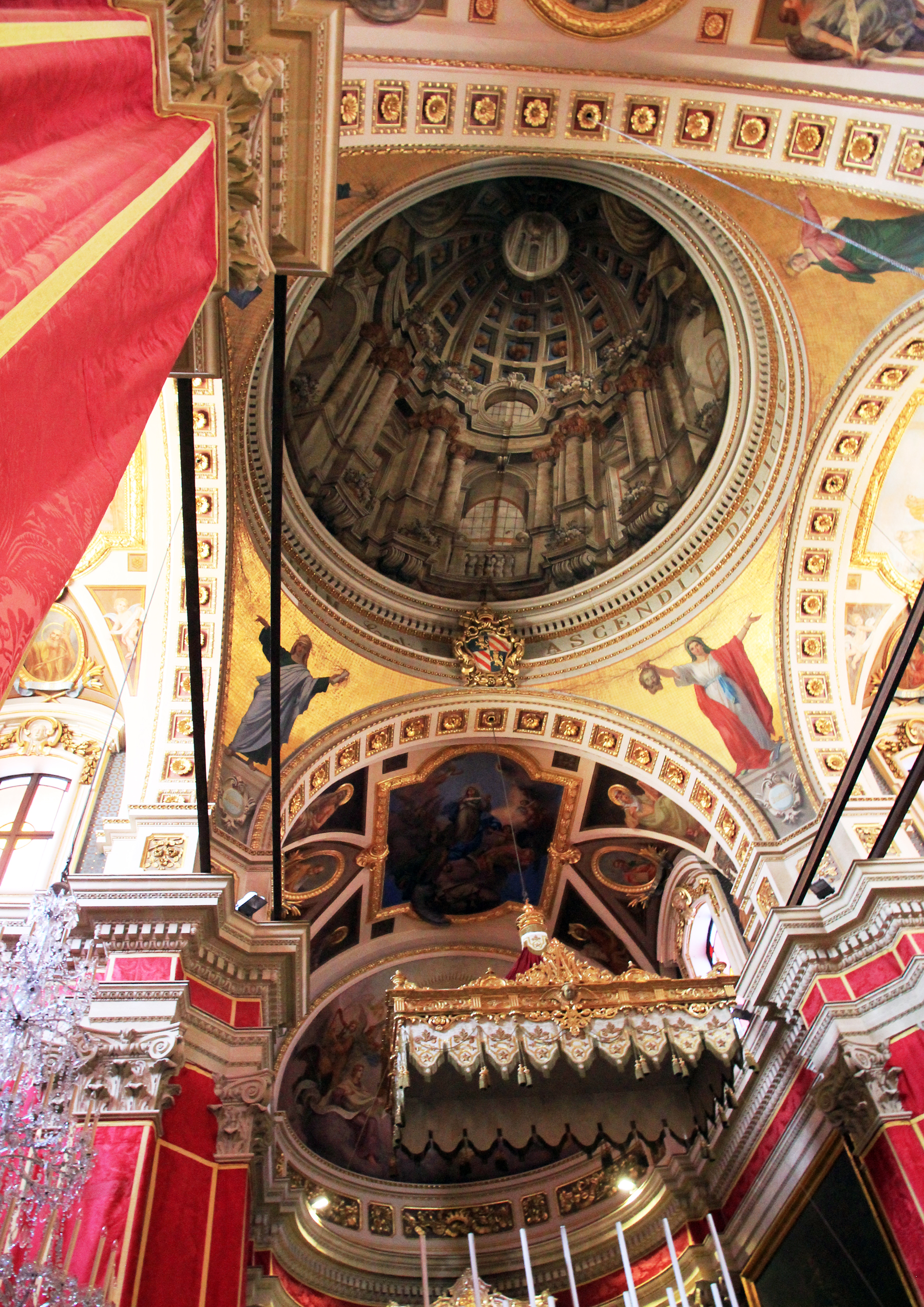 Decoration of the ceiling in St. Marija Cathedral in Victoria - capital of Gozo island, Malta